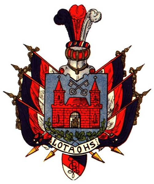 Coat of arms of student fraternity Fraternitas Rigensis